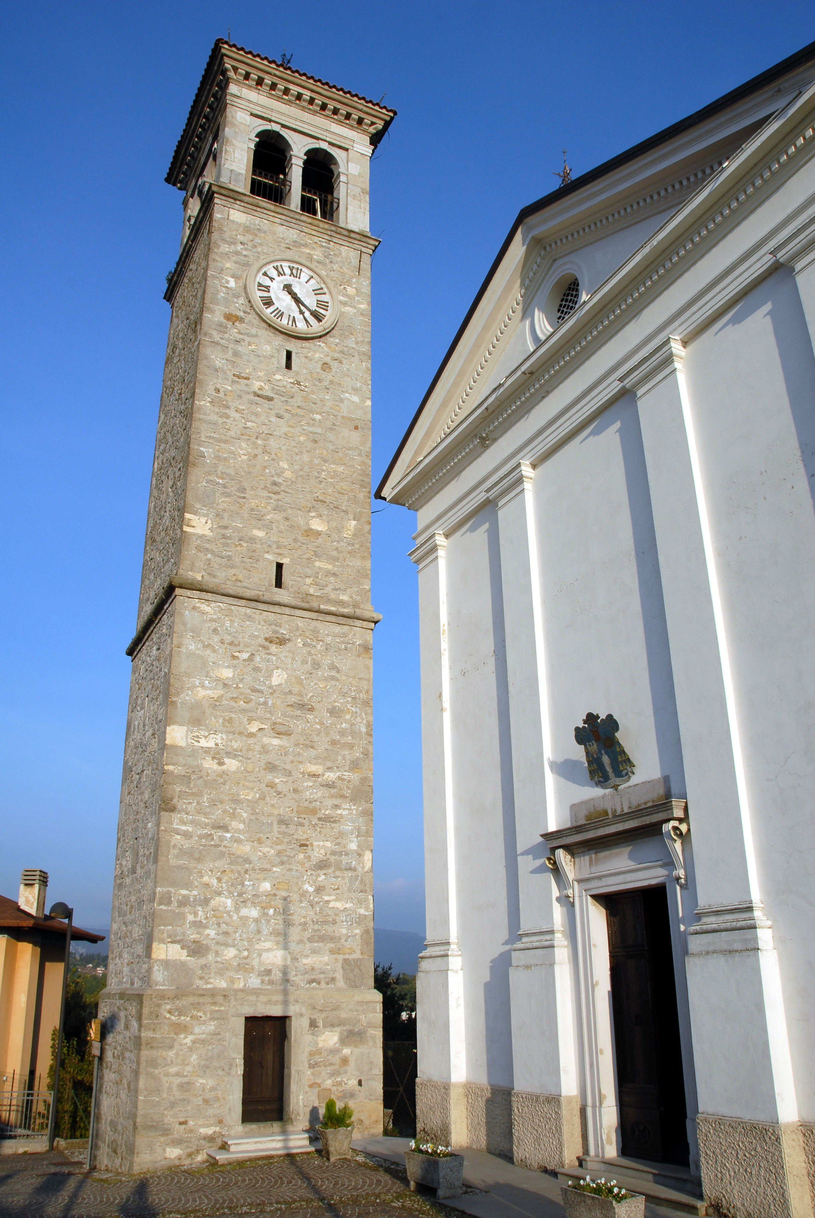 Parish church dedicated to abbot Saint Leonard, work by architect Domenico Schiavi (1825), at Collalto in the community Tarcento region Friuli Venezia-Giulia, Italy